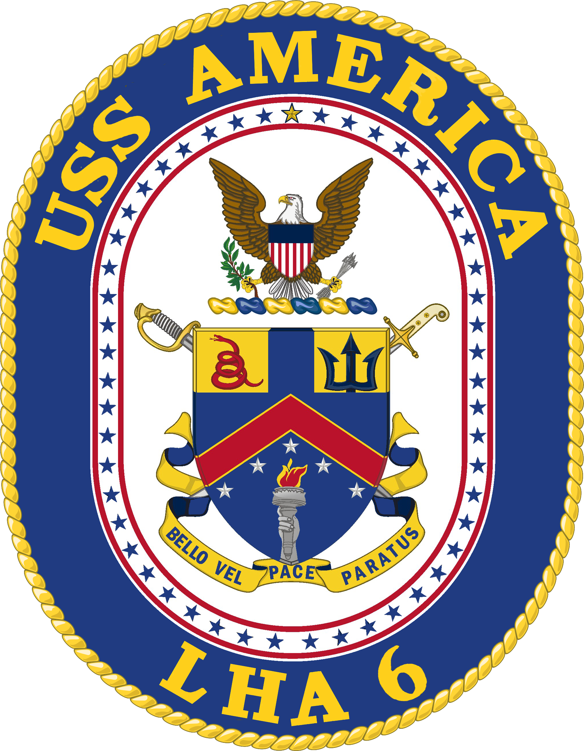 Emblem of the USS America LHA-6